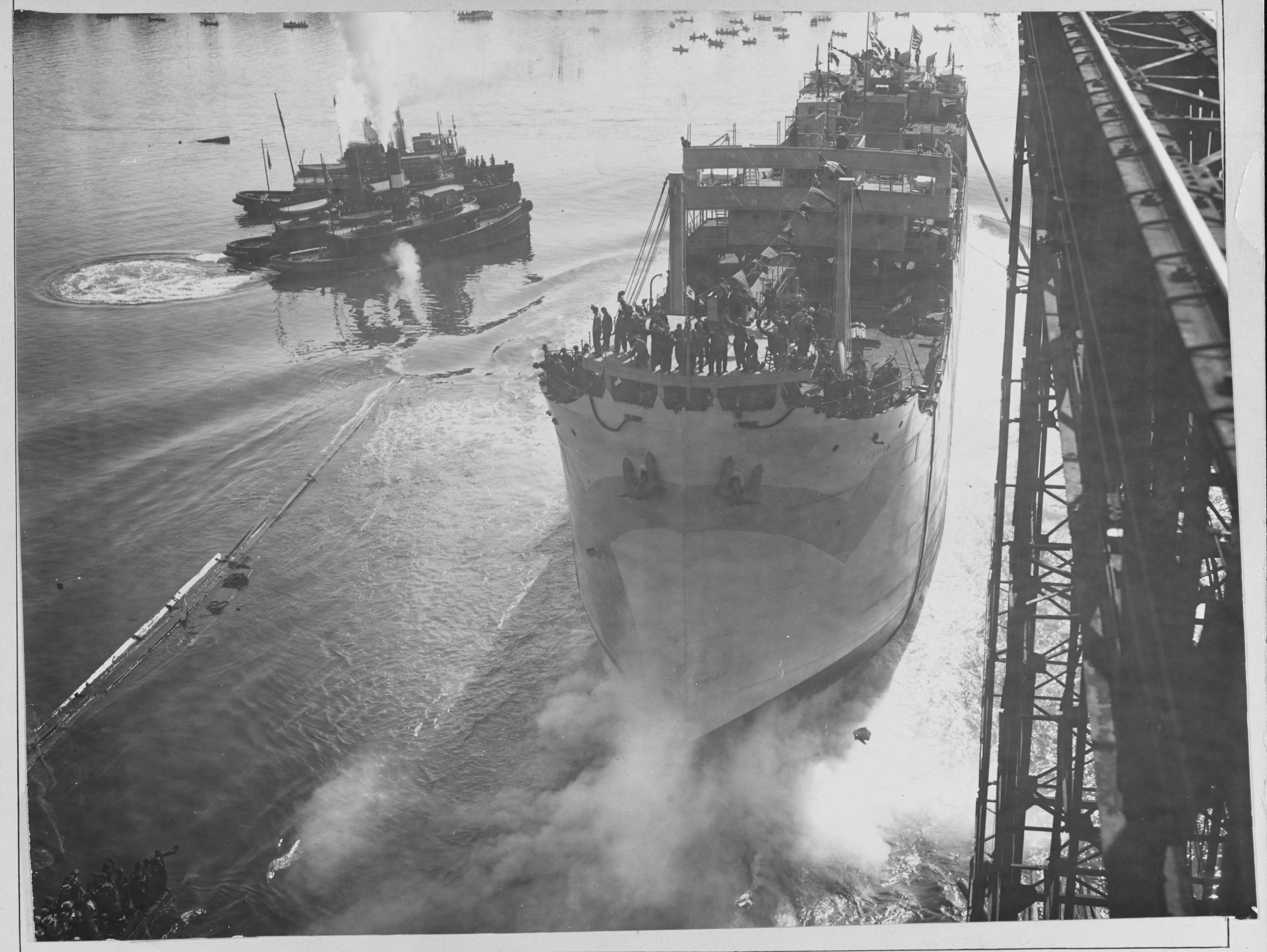 The launching of tanker SS W. L. Steed in 1918 prior to her 1918-1919 U.S. Navy service as W. L. Steed (ID-3449)